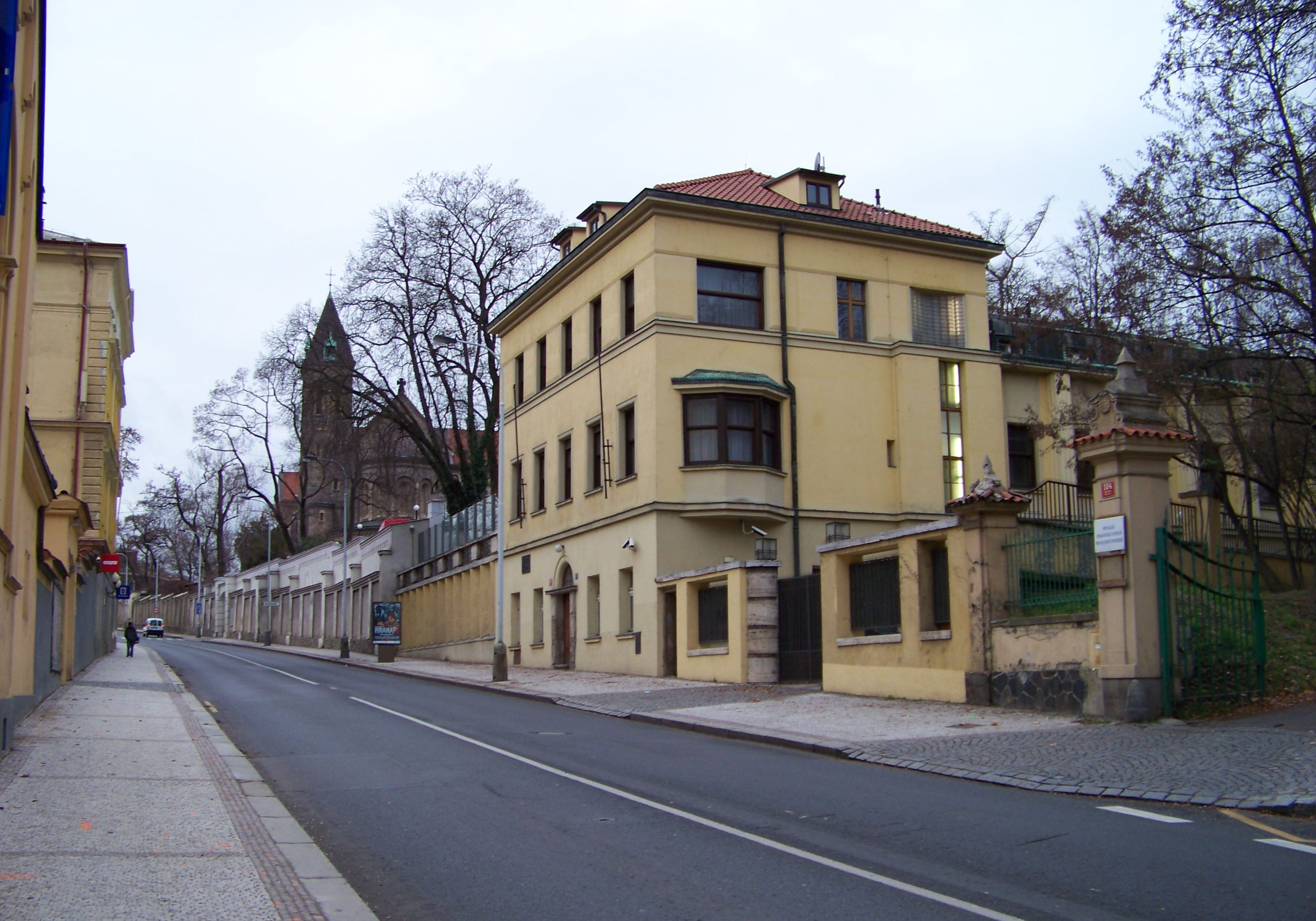 Prague-Smíchov, the Czech Republic. Holečkova street. - Google Maps - Google Earth